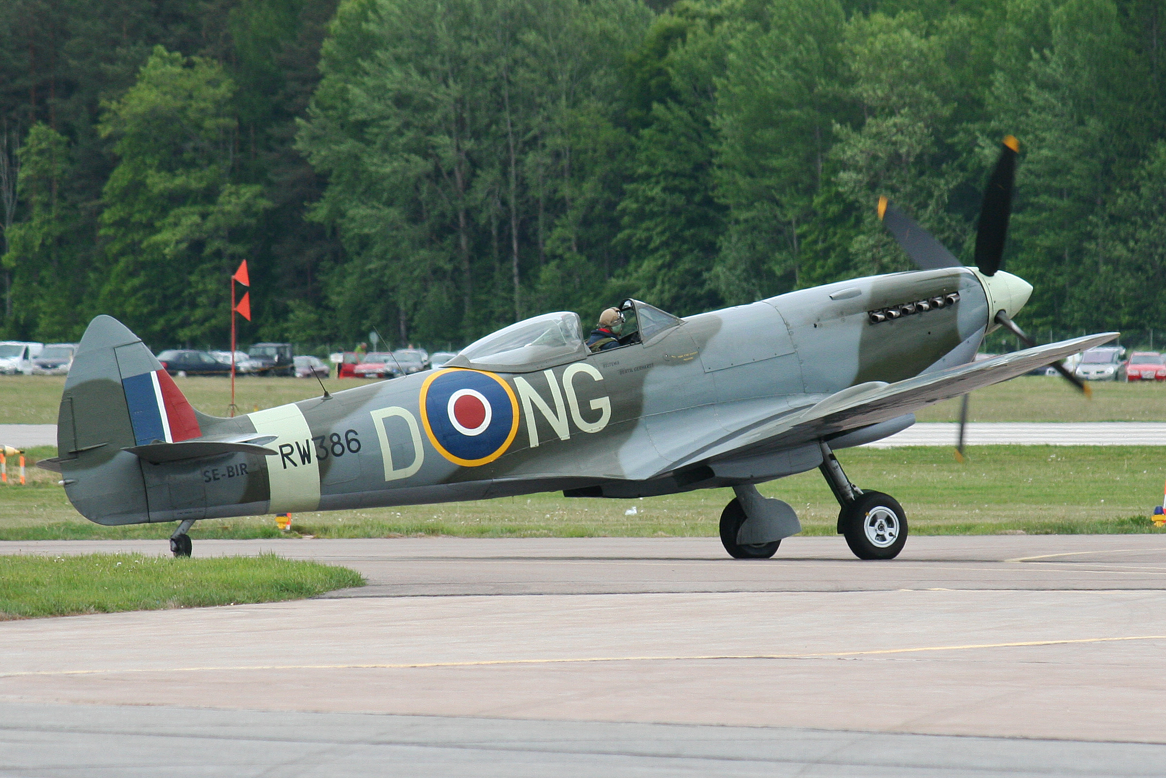 Lined up for departure. She hadn't flown during the display due to the high cross-wind, but after take-off at the end of the show she gave us a couple of passes before heading home to Angelholm. msn CBAF.IX4644. 2012 Malmen Airshow, Sweden. 03-06-2012